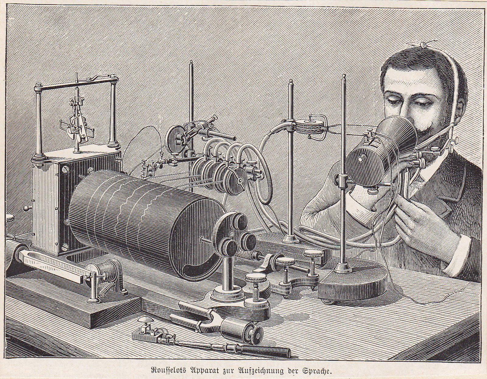 Abbé Rousselot was a pioneer of sound research. What he did with this machine is not known in detail. Since Rousselot's interest had to do with the building blocks of human speech ("phonemes"), this machine was probably used for this purpose – to record different frequencies on paper. The wood engraving was made by Louis Poyet, probably around 1890. It appeared in a German pupular magazine and was cut out by a collector. The archive number in the Frankfurt Museum for Communication is 4.0.17985